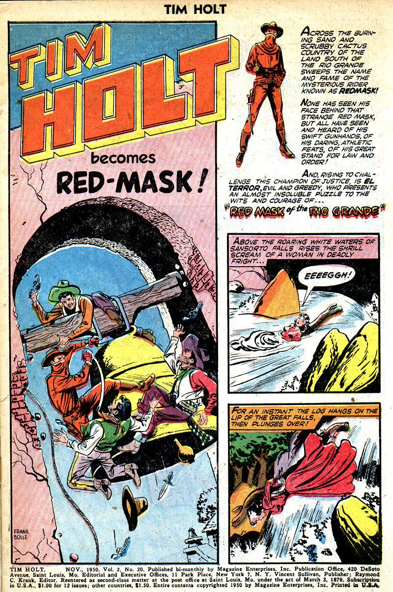 Tim Holt #20, page 2